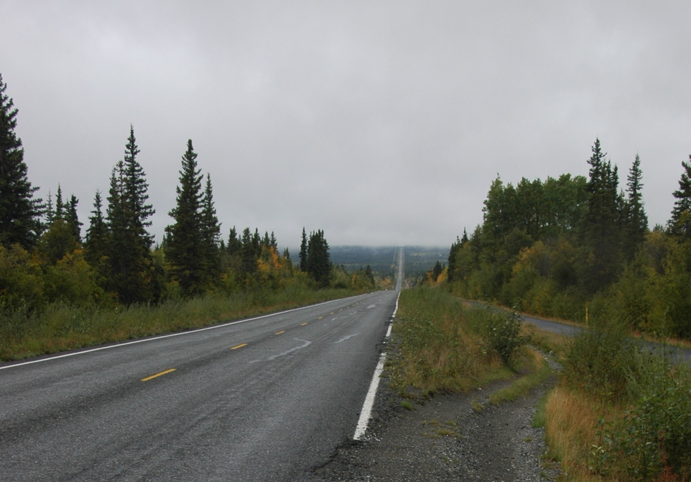 The Edgerton Highway south of Copper Center, Alaska at approximately milepost 4.